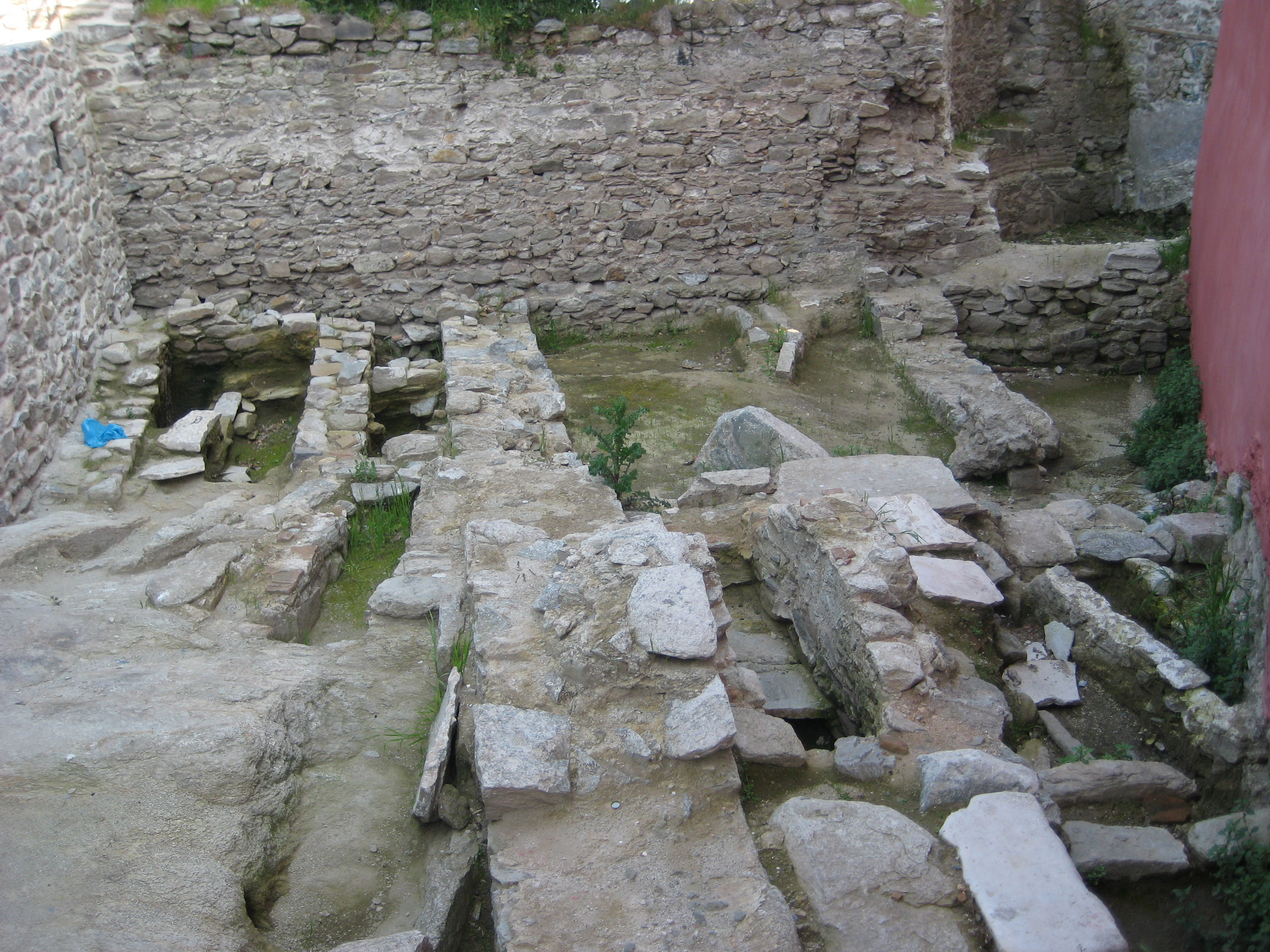 the remains of the byzantine basilica 5th A.D. - 13th A.D. from the city of Christoupolis, nowdays Kavala in Greece, Eastern Macedonia